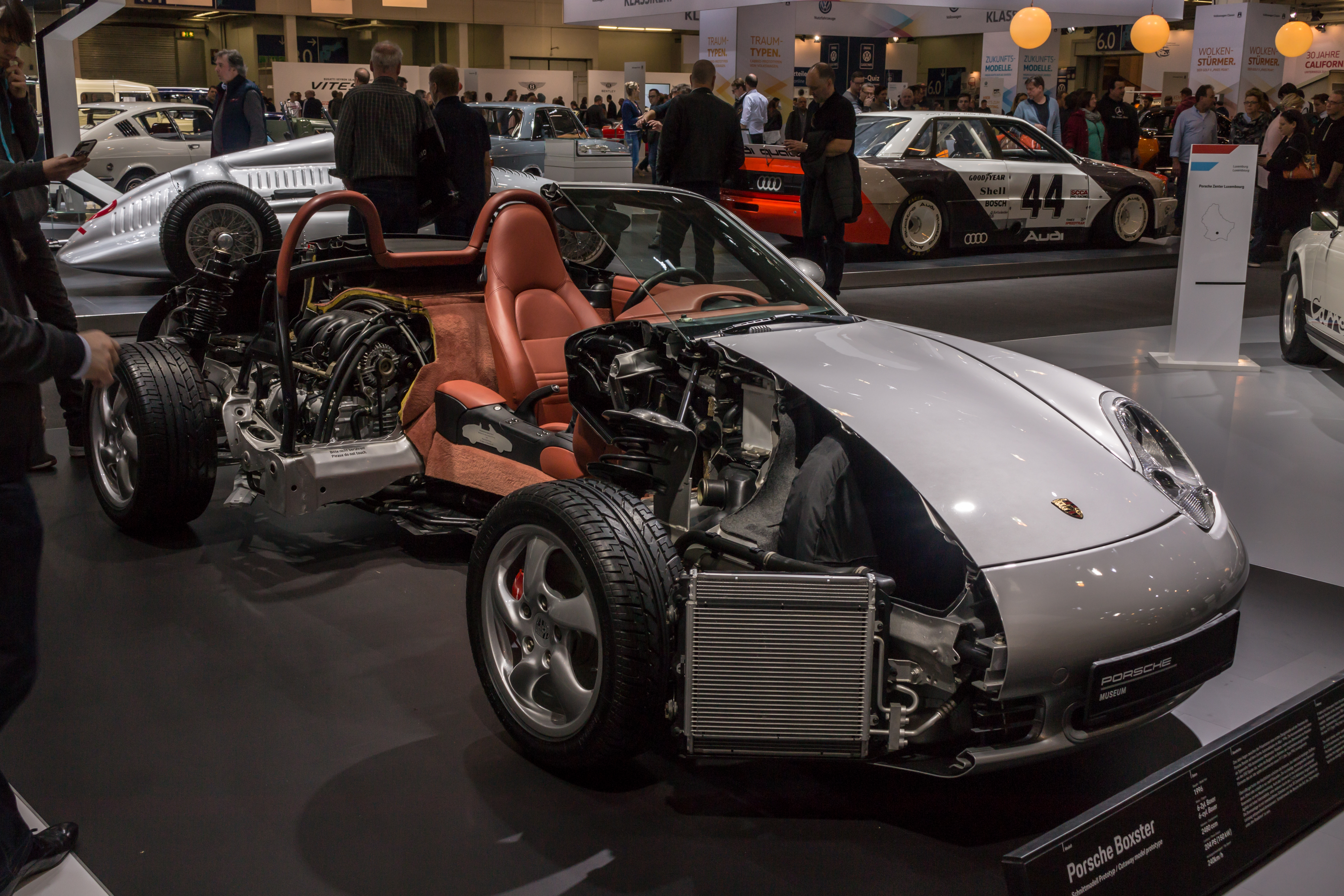 Porsche, Techno-Classica 2018, Essen